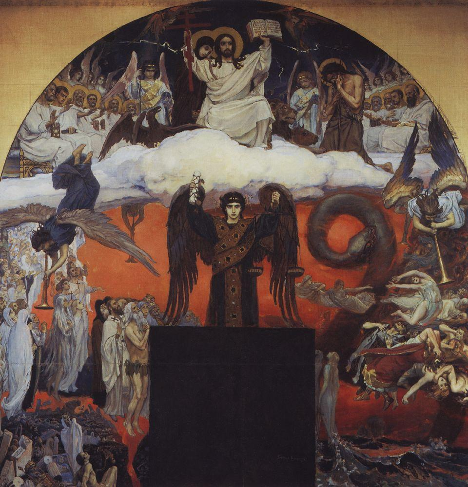 Judgement Day, fresco by Viktor Vasnetsov (St. Vladimir's Cathedral, Kiev, Ukraine).